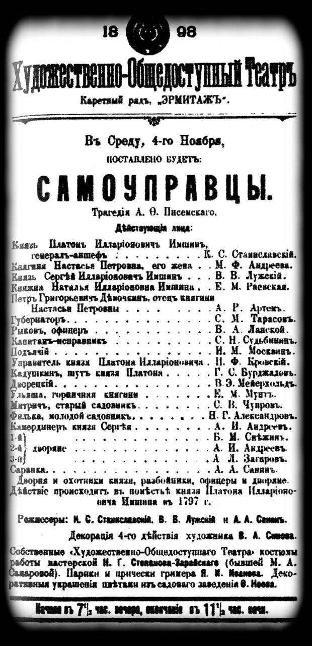 The Moscow Art Theatre 1898 poster for Alexey Pisemsky's play 'Men Above the Law'